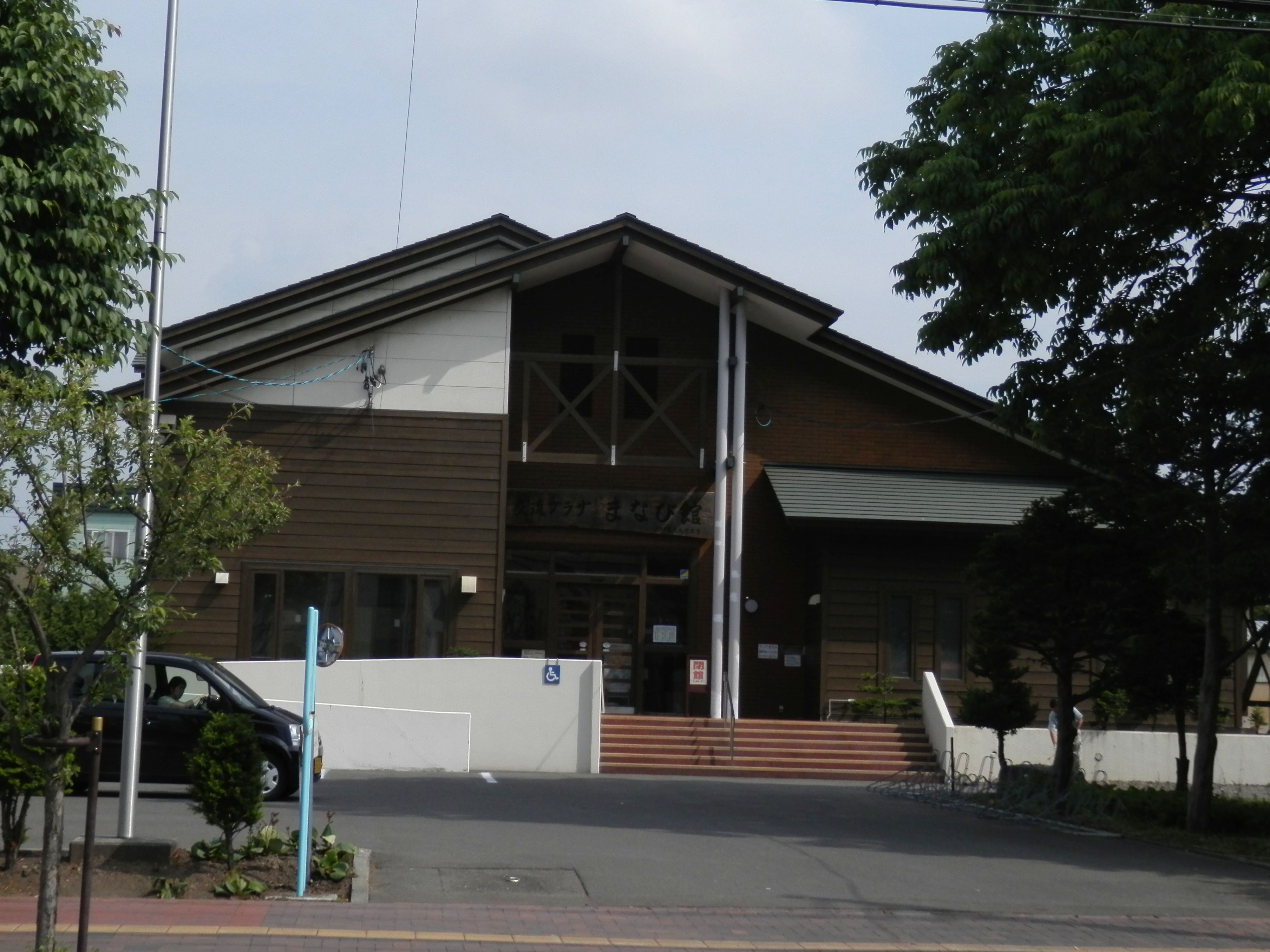 "Manabikan" Library, the central Eniwa branch of the Eniwa Public Library in Eniwa, Hokkaido